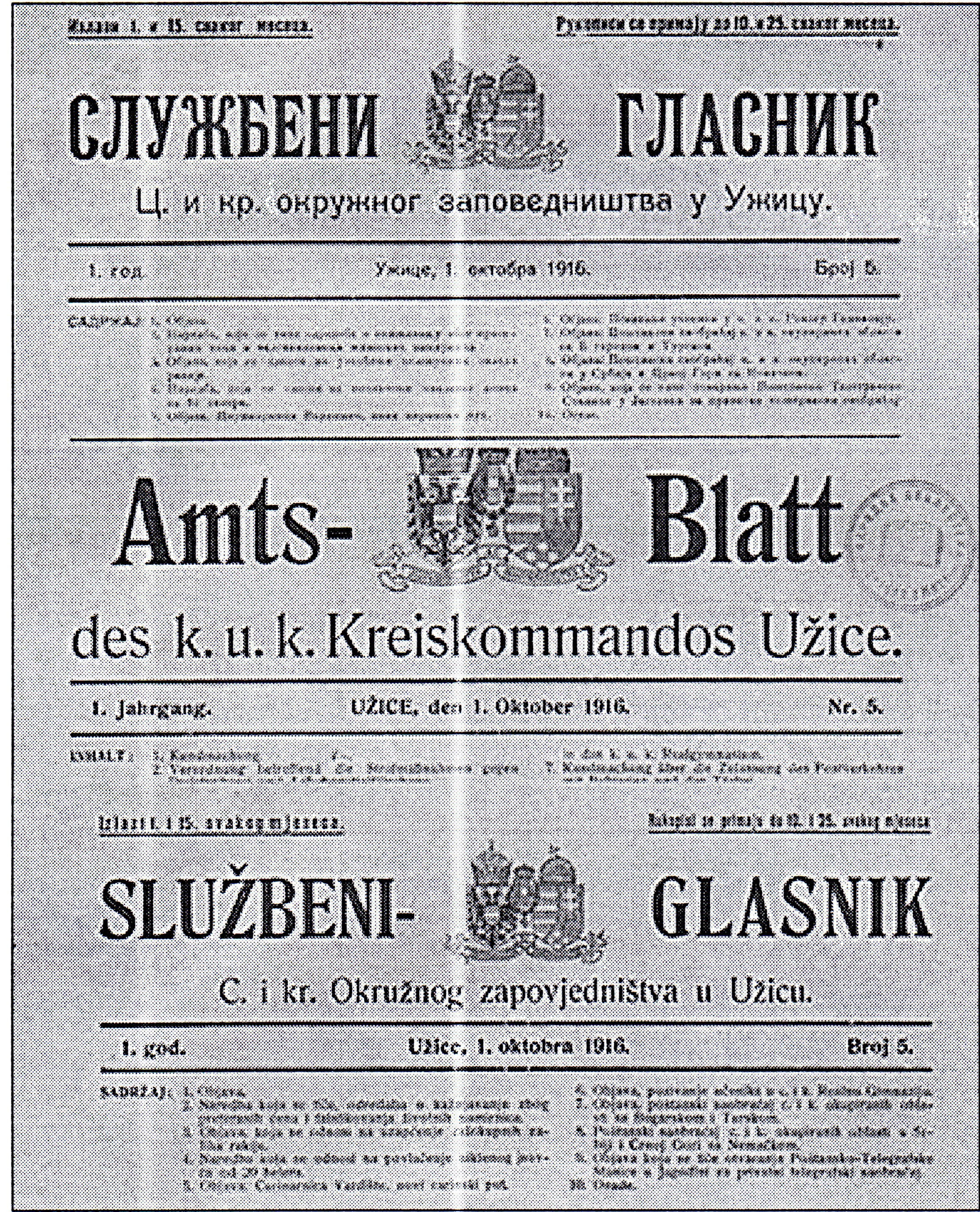 Government gazette 1916-1918 in Uzice in Serbia